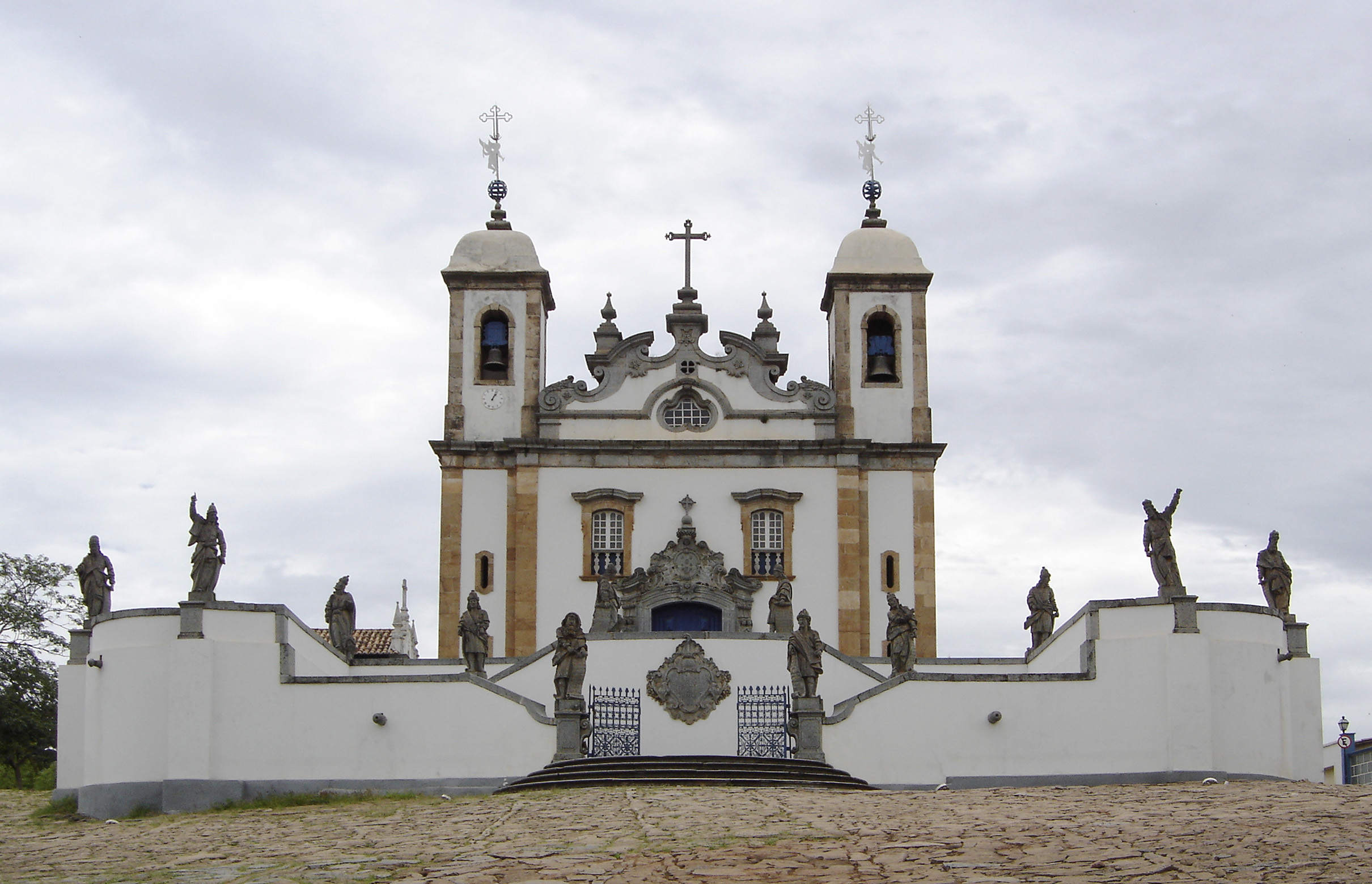 The church of the sanctuary of the Bom Jesus of Matosinhos at Congonhas, Minas Gerais, Brazil, with the sculptures of the Prophets made by Aleijadinho.